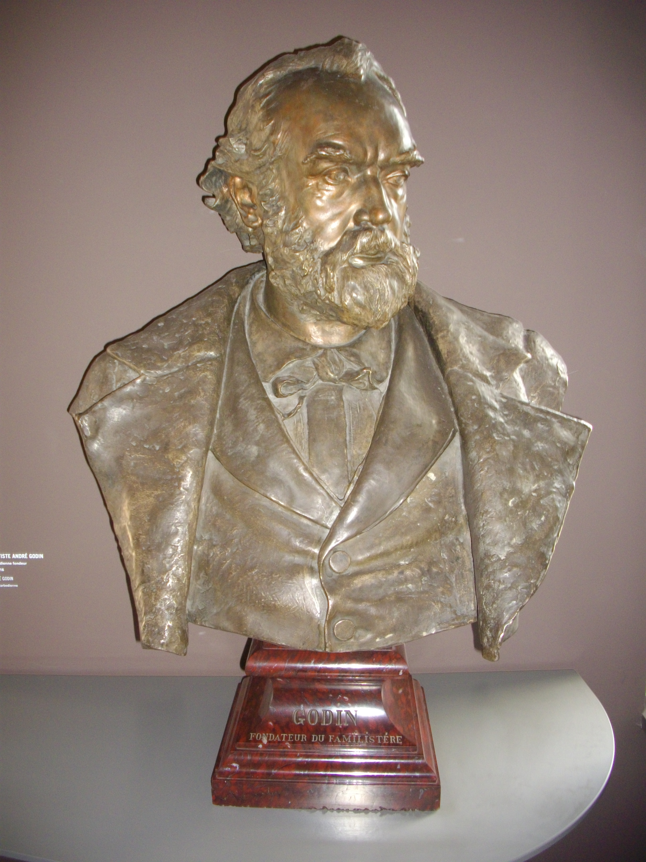 "Familistère" of Guise (Aisne, France) : Godin's study in the western wing of the social palace, bust of Godin .